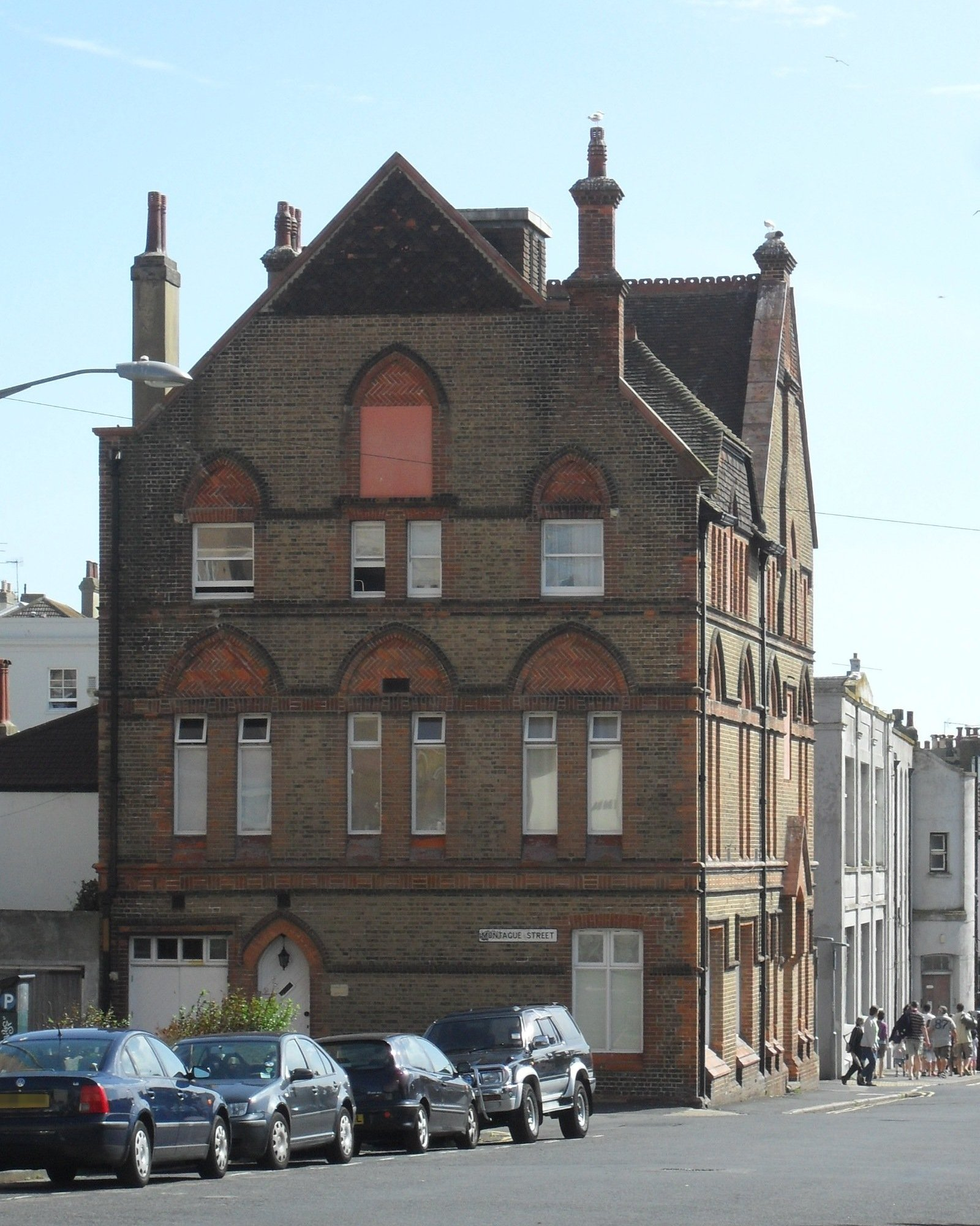 Pelham Institute, Upper Bedford Street, Kemptown, City of Brighton and Hove, England. (Picture taken from the north.) A working men's club, social venue and hostel, built in 1877 by Thomas Lainson on behalf of the Vicar of Brighton. The style is High Victorian Gothic. It has been converted into flats by a housing association. Listed at Grade II by English Heritage (IoE Code 481395)